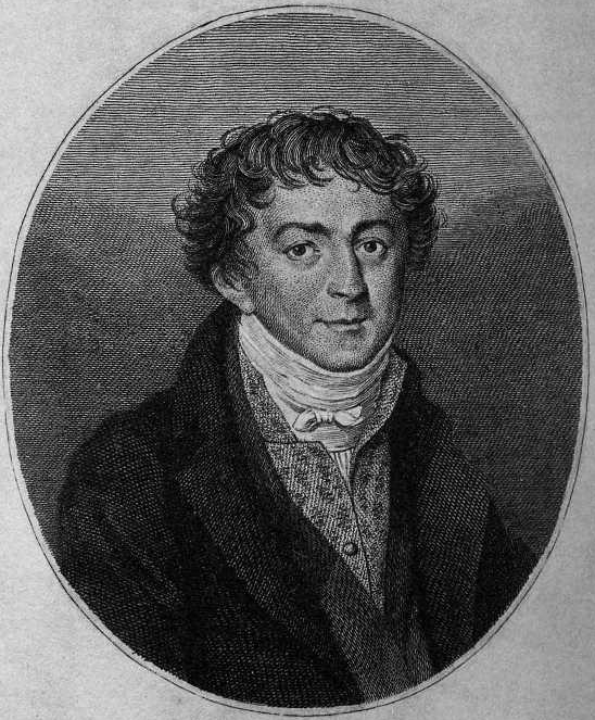 Konstantin Batyushkov